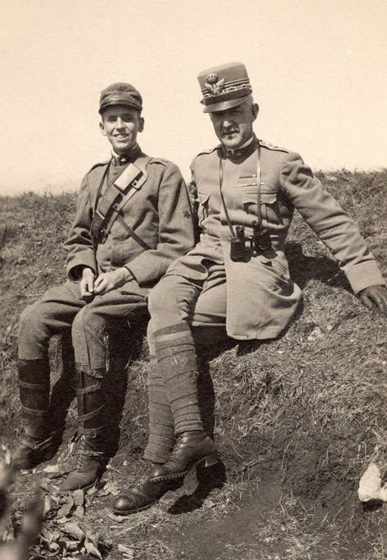 The Duke of Aosta Emanuele Filiberto of Savoy Commander of the 3rd Army with his son Amedeo Duca delle Puglie